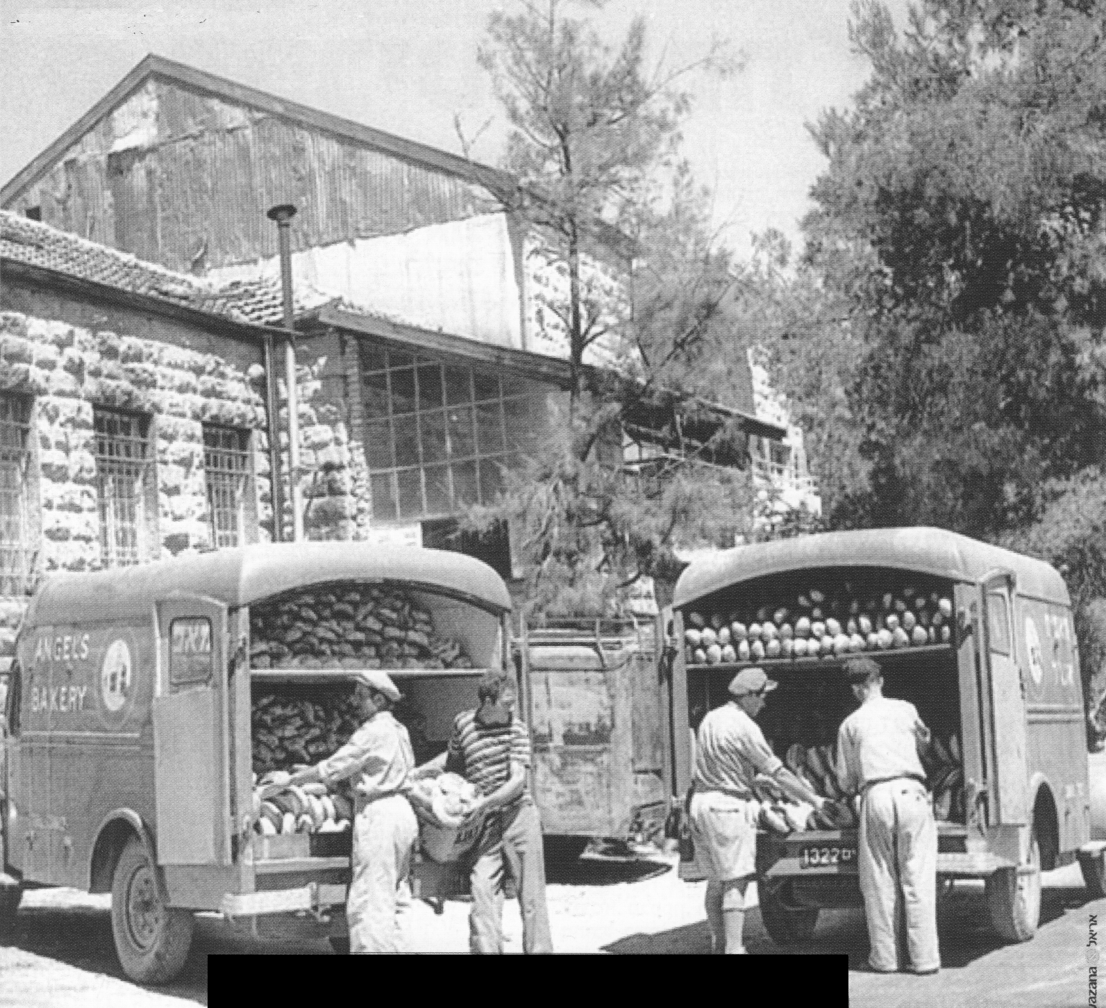 Angel's Bakery